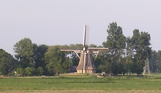 windmill Grote Molen near the village of Broeksterwâld